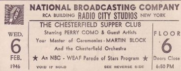 Ticket for Chesterfield Supper Club broadcast of 6 February 1946 at WEAF "Radio City Studios" in the "RCA Building" in New York City. Copyright details There are no copyright markings on either side of the ticket, which was produced for distribution to the public for admission to the Chesterfield Supper Club radio show as part of the studio audience on the day shown on it. The item can be dated by the date the ticket was valid. It was issued as a promotional item--the intention being promotion of NBC Radio and Chesterfield Supper Club by way of allowing a listener/ticket holder to be part of the radio show's studio audience on a given day. Tickets for radio and television shows are given for the asking by networks and broadcasting stations; the front of the ticket says "Void if sold." From Cornell University: Cornell University The Cornell information indicates this image is in the public domain: "For works first registered or publisher in the US: "1923 through 1977 "Published without a copyright notice "None. In the public domain due to failure to comply with required formalities."